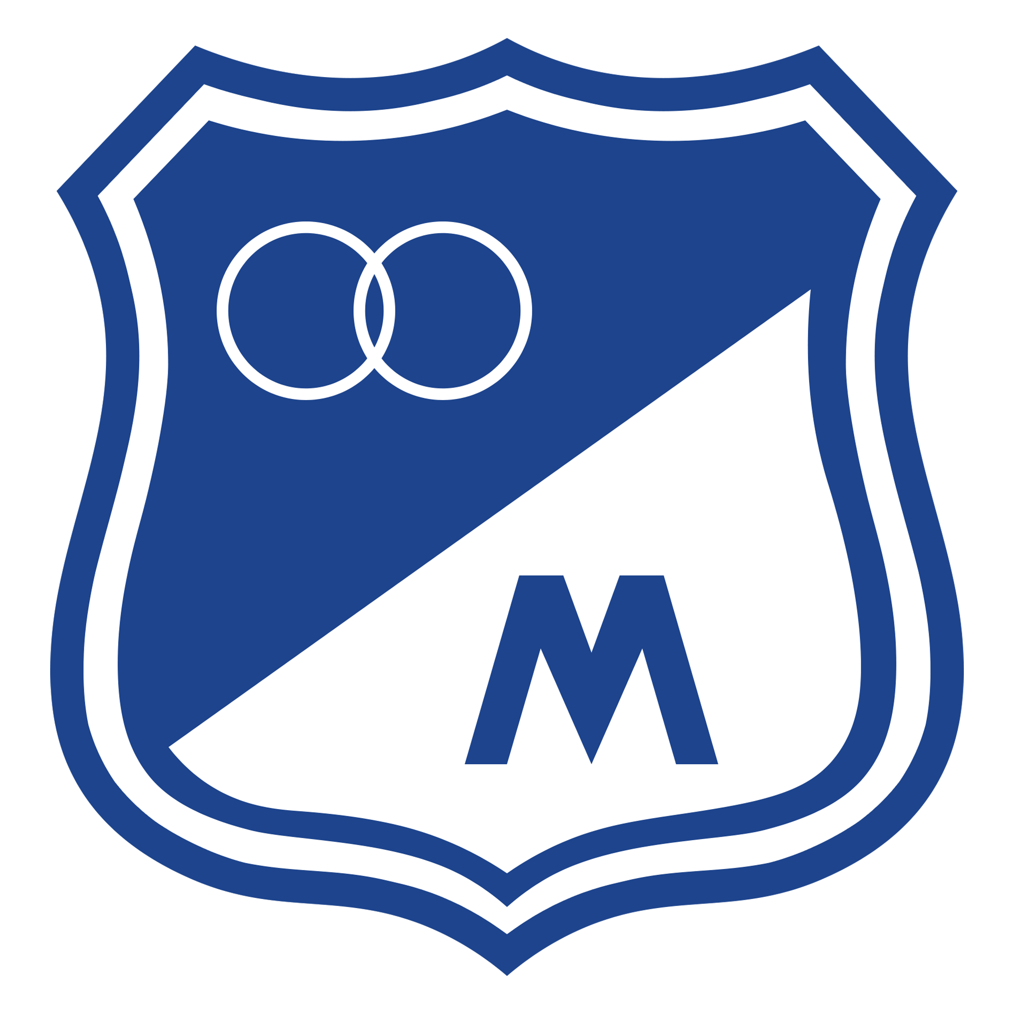 escudo millonarios 60s